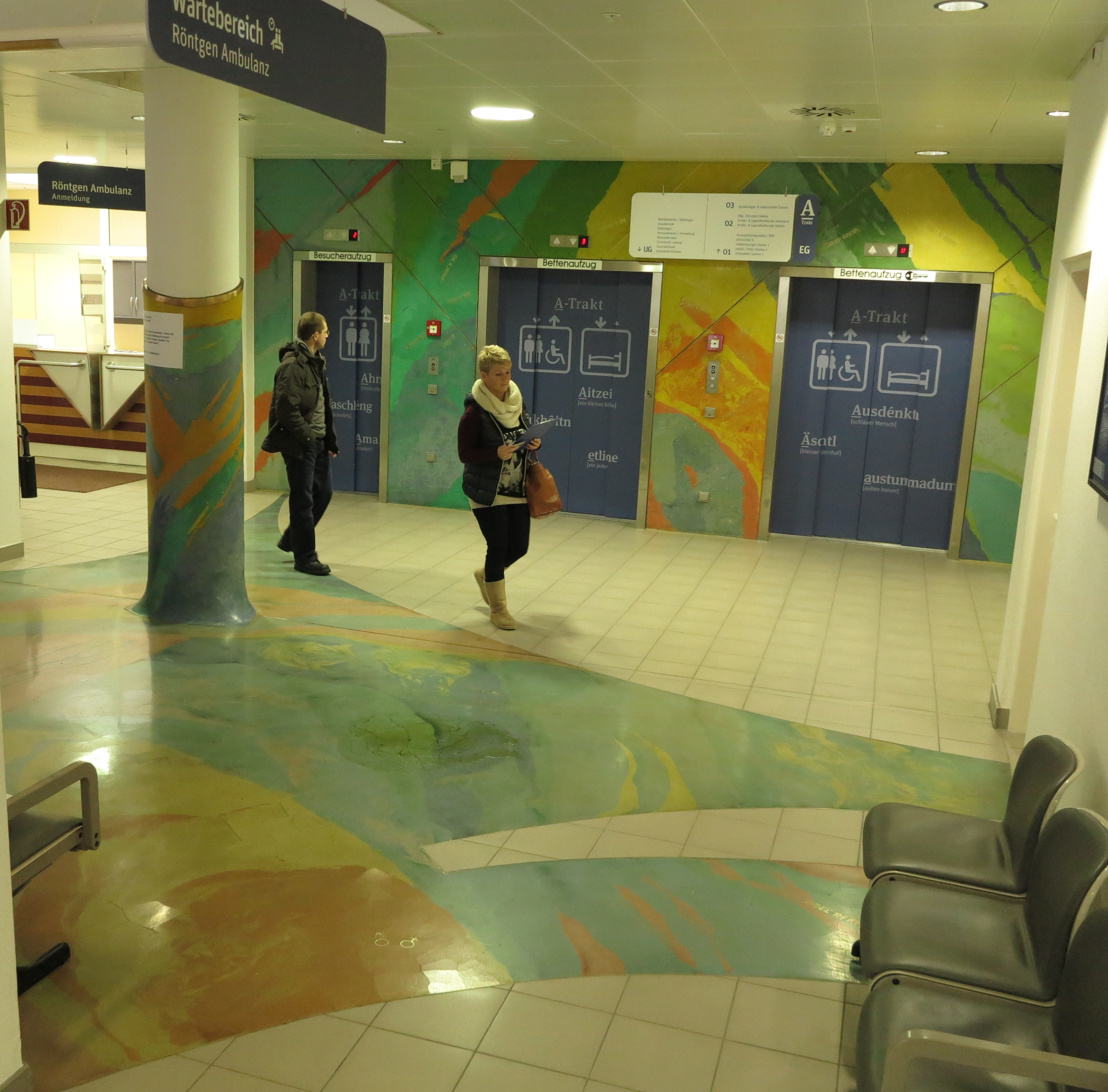 Patricia Karg Bezirkskrankenhaus St. Johann in Tirol